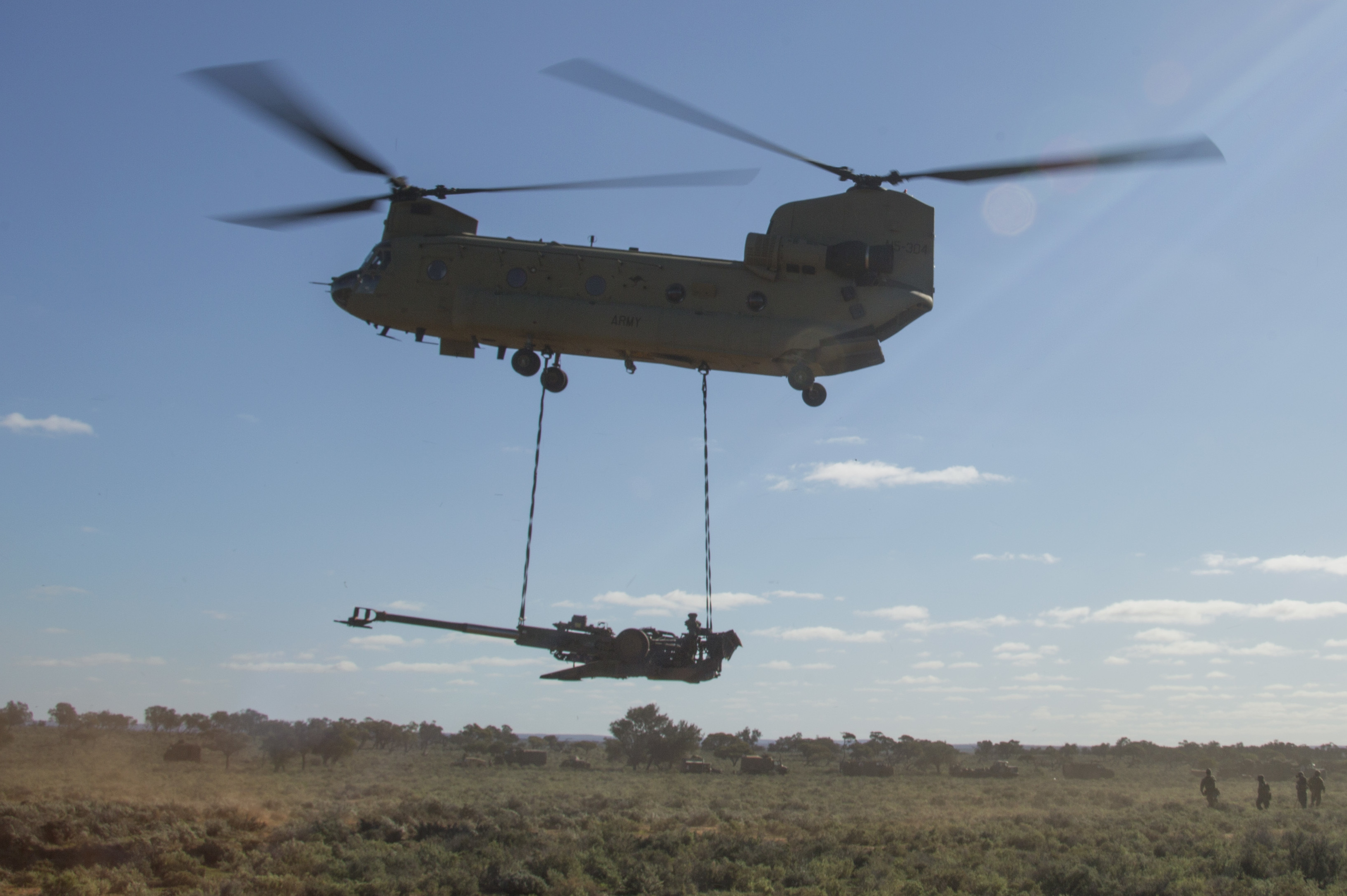 An Australian Army CH-47 Chinook lifts a M777A2 Howitzer during Exercise Predator Strike at Cultana Training Area, South Australia, Australia, June 12, 2016. Predator Strike is a yearly exercise conducted by U.S. Marines and the Australian Defence Force to enhance the trust, interoperability and friendship between the two allies. (U.S. Marine Corps photo by Cpl. Carlos Cruz Jr./Released)